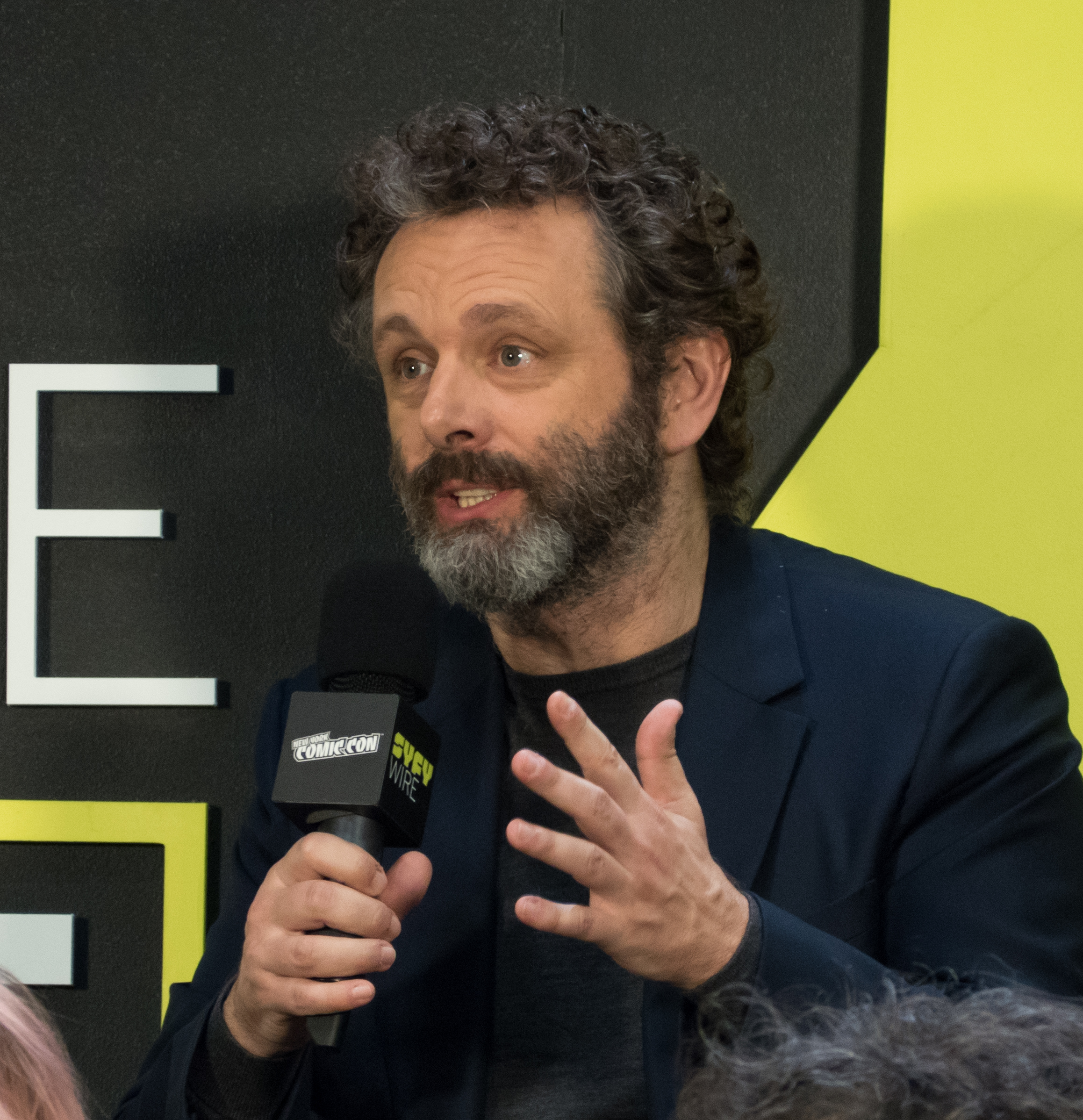 Michael Sheen on the Good Omens panel at New York Comic Con in October 2018.